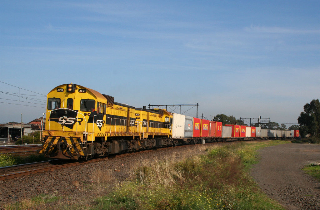 Southern Shorthaul Railroad operated diesel locomotives J103 and J102 haul a short trip train from CRT depot at Altona into the Port of Melbourne, at Newport, Victoria